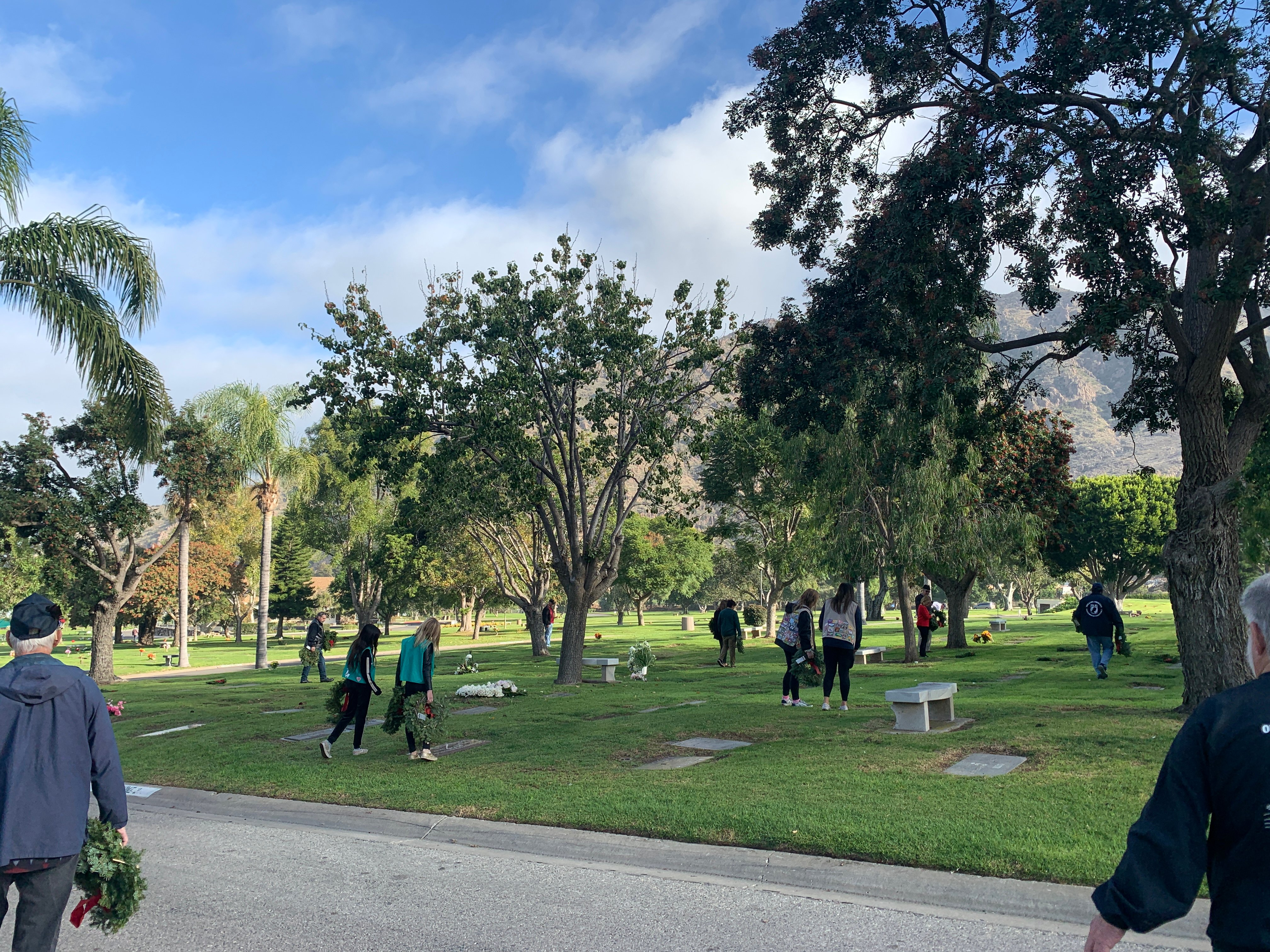 TeamBrownley was honored to take part in Wreaths Across America, an annual event during the holiday season that aims to remember fallen servicemembers and veterans and recognize their sacrifice and service to our nation. Our office joined volunteers throughout Ventura County to lay down wreaths on the headstones of servicemembers and veterans who have been laid to rest at Conejo Mountain Memorial Park in Camarillo.